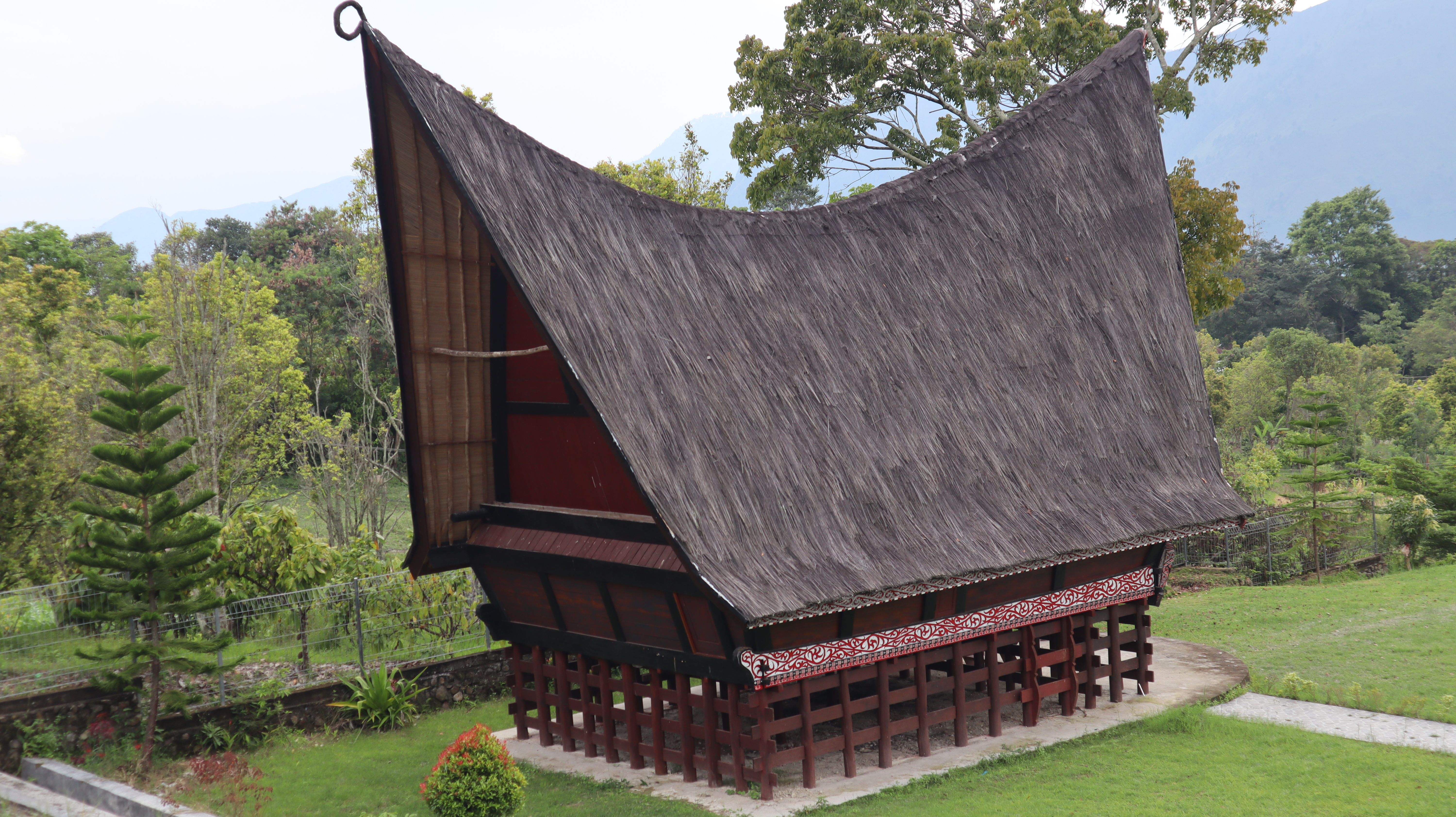 Rumah Bolon (Huge House) is Batak Traditional House. This house has a unique architecture and interior design. We bow down to enter the house representing the Batak philosophy of respecting the owner of the house which we visit. The back of the house must be built higher than the frontage of the house. This represents another Batak philosophy that a son must be better than his father in everything. So, if someone is a teacher at school, his son have to be a teacher at university. Every Batak House is also decorated with Batak painting called "Gorga" Every single touch of the painting has its own meaning. Red, black, brown, and white are the color combination used for Batak House. Some of the batak house is decorated with the head of a buffalo. The kitchen is set in the middle of the house. Traditionally, there were several families living in a house. So, they built kitchen in the middle so they can keep living in harmony and togetherness. There is always a basement. The basement was functioned as the place for pig and buffalo. There is a place to keep rice above the enterance. Batak, traditionally did't use septic tank. They directly take a poo and drop it to the basement so the pigs can eat the poo.